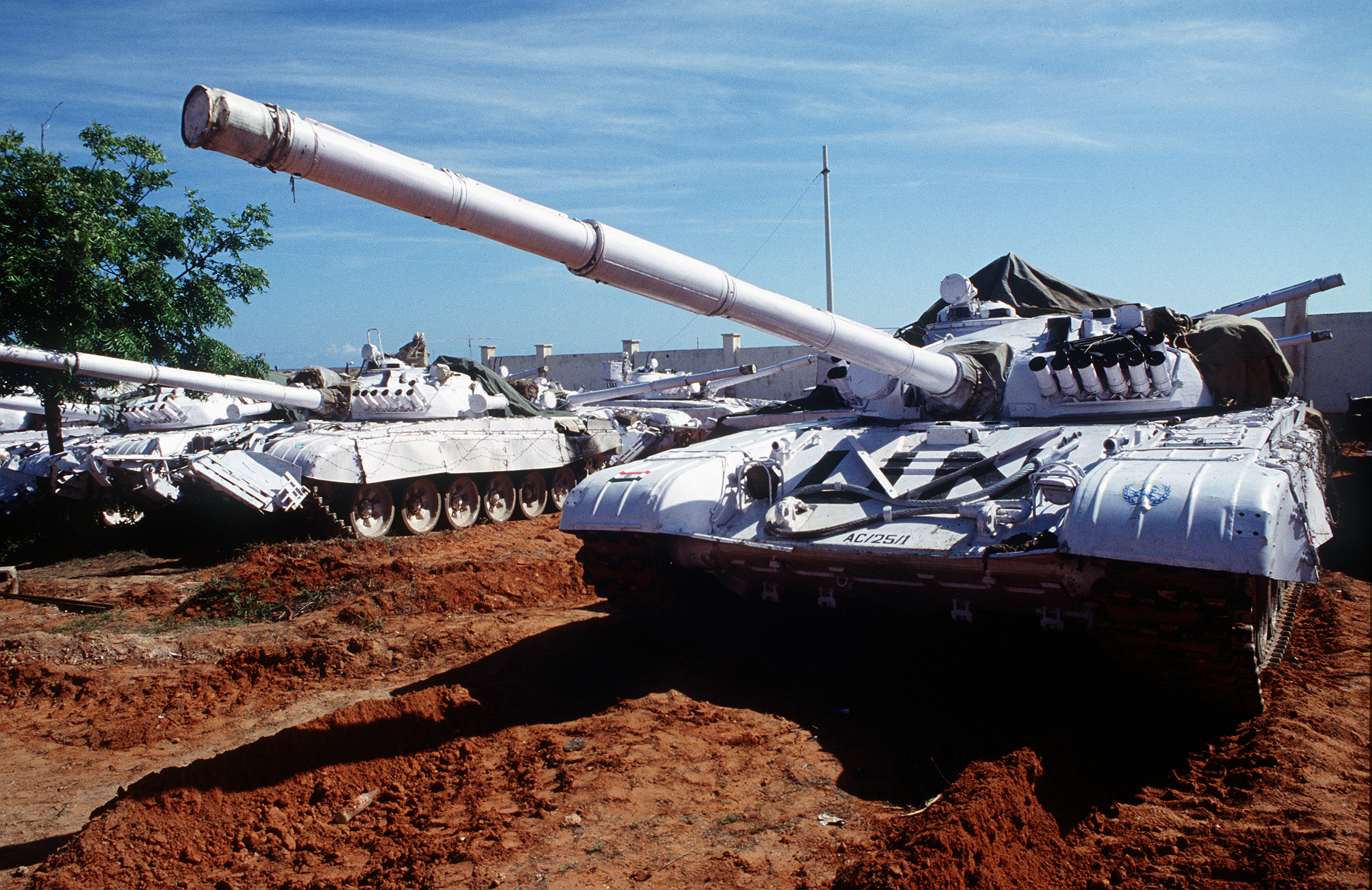 United Nations tanks at the Belgian compound in Kismayo. The UN forces are in Somalia in support of Operation CONTINUE HOPE. Front view of a T-72 main battle tank with UN markings. Obviously these T-72's belong to the Indian Army.